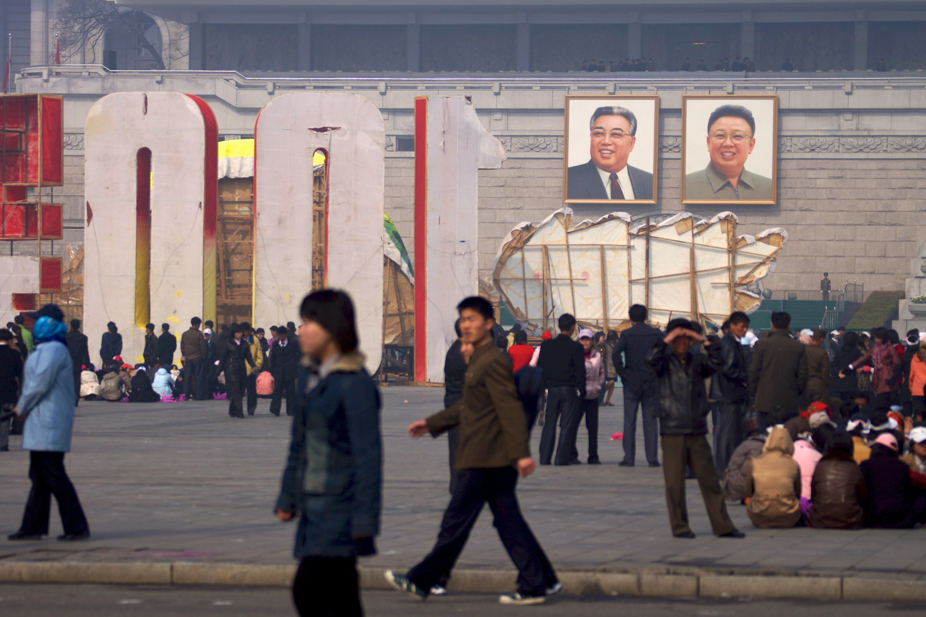 April 2012 trip to DPRK, North Korea for the 100th year birthday celebrations for Kim Il Sung - check out my North Korea blog at